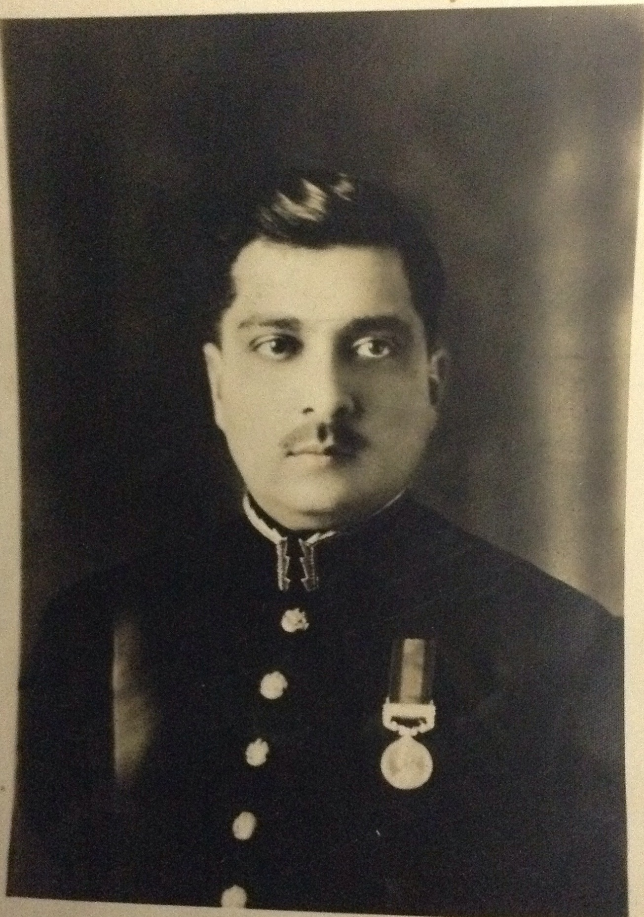 Captain Iskander Mirza